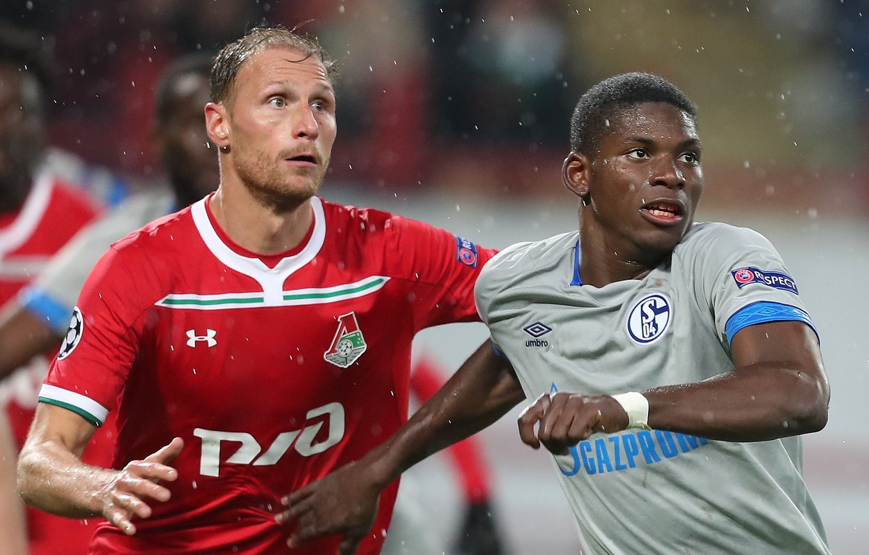 FC Lokomotiv Moscow vs. FC Schalke 04, 3 October 2018